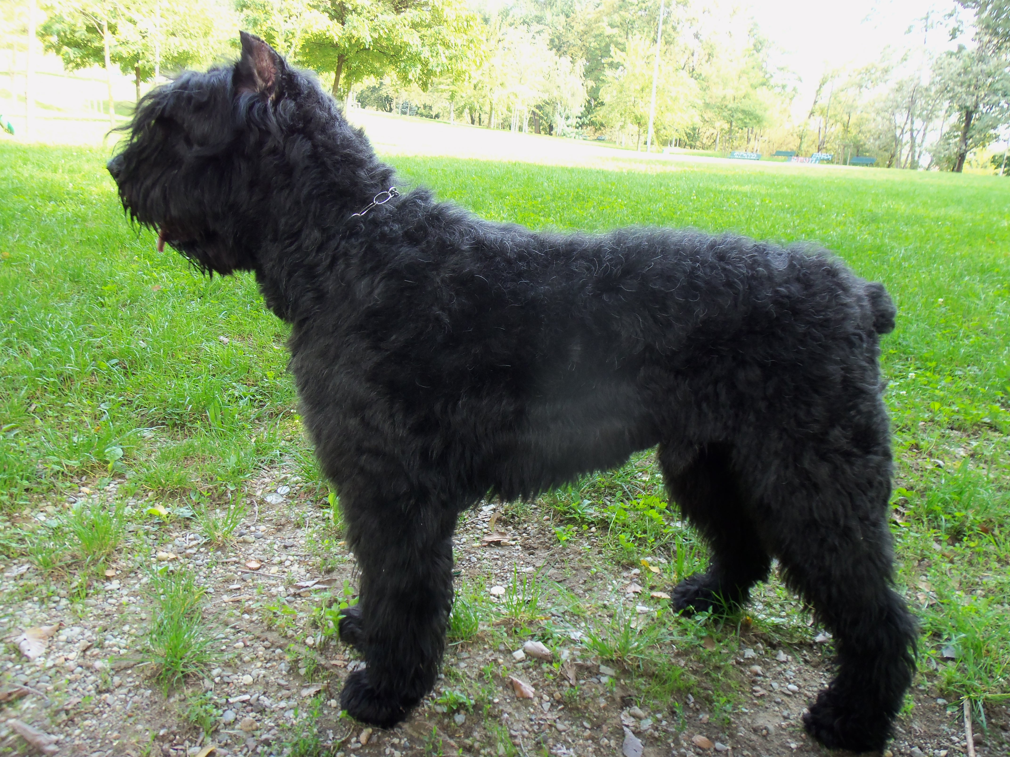 Sheepdog (cow) Bouvier des Flandres: Spyke dei "Grandi Saggi"